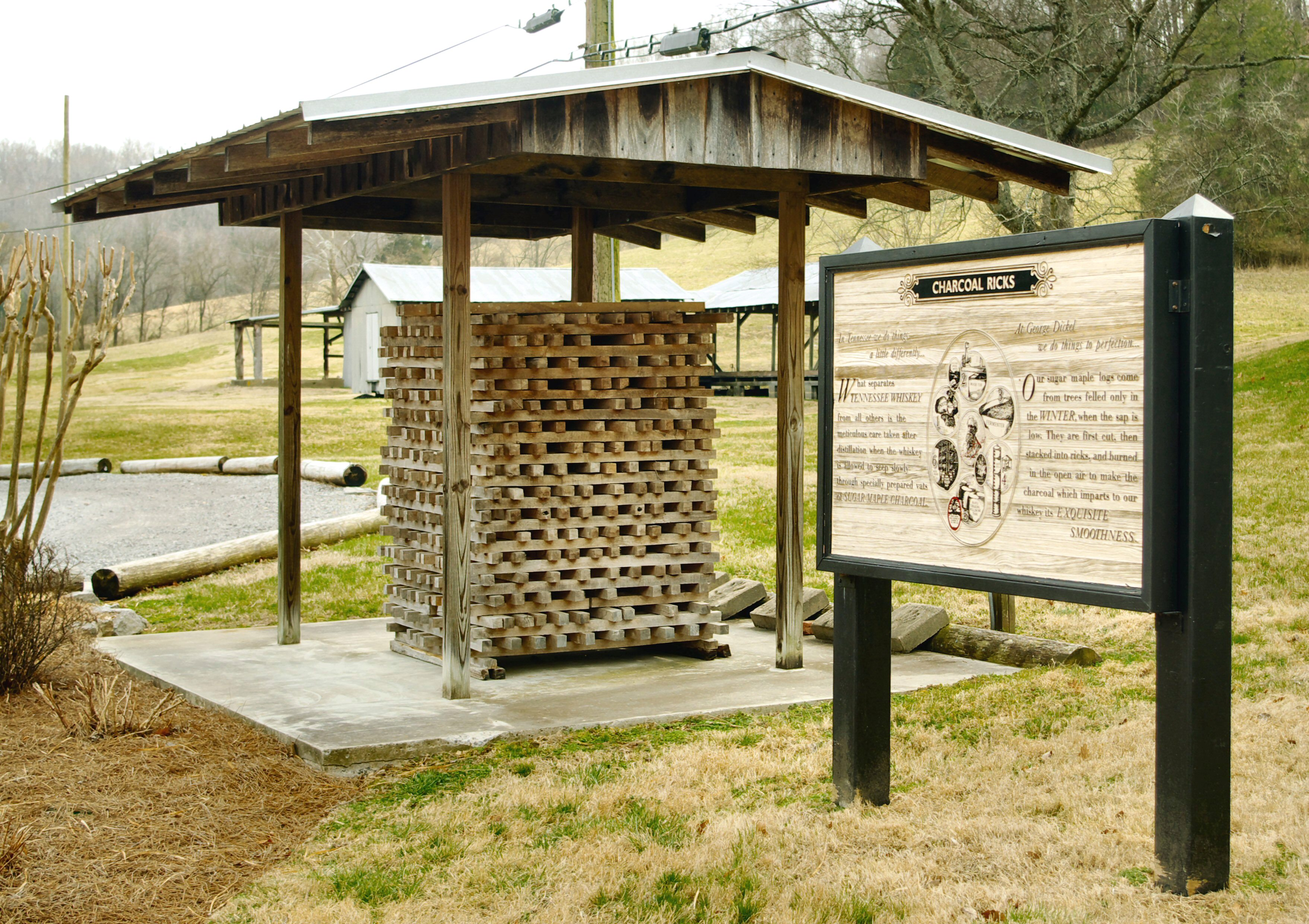 Sugar maple charcoal ricks on display at the George Dickel distillery near Tullahoma, Tennessee, United States. Following distillation, Tennessee whiskey is filtered through charcoal produced from ricks such as these.